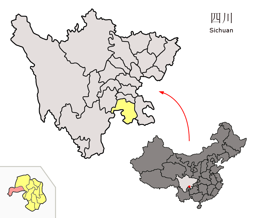 Location of Pingshan County (pink) and Yibin Prefecture (yellow) within Sichuan province of China Map drawn in october 2007 using various sources, mainly : Sichuan province administrative regions GIS data: 1:1M, County level, 1990 Sichuan Counties map from